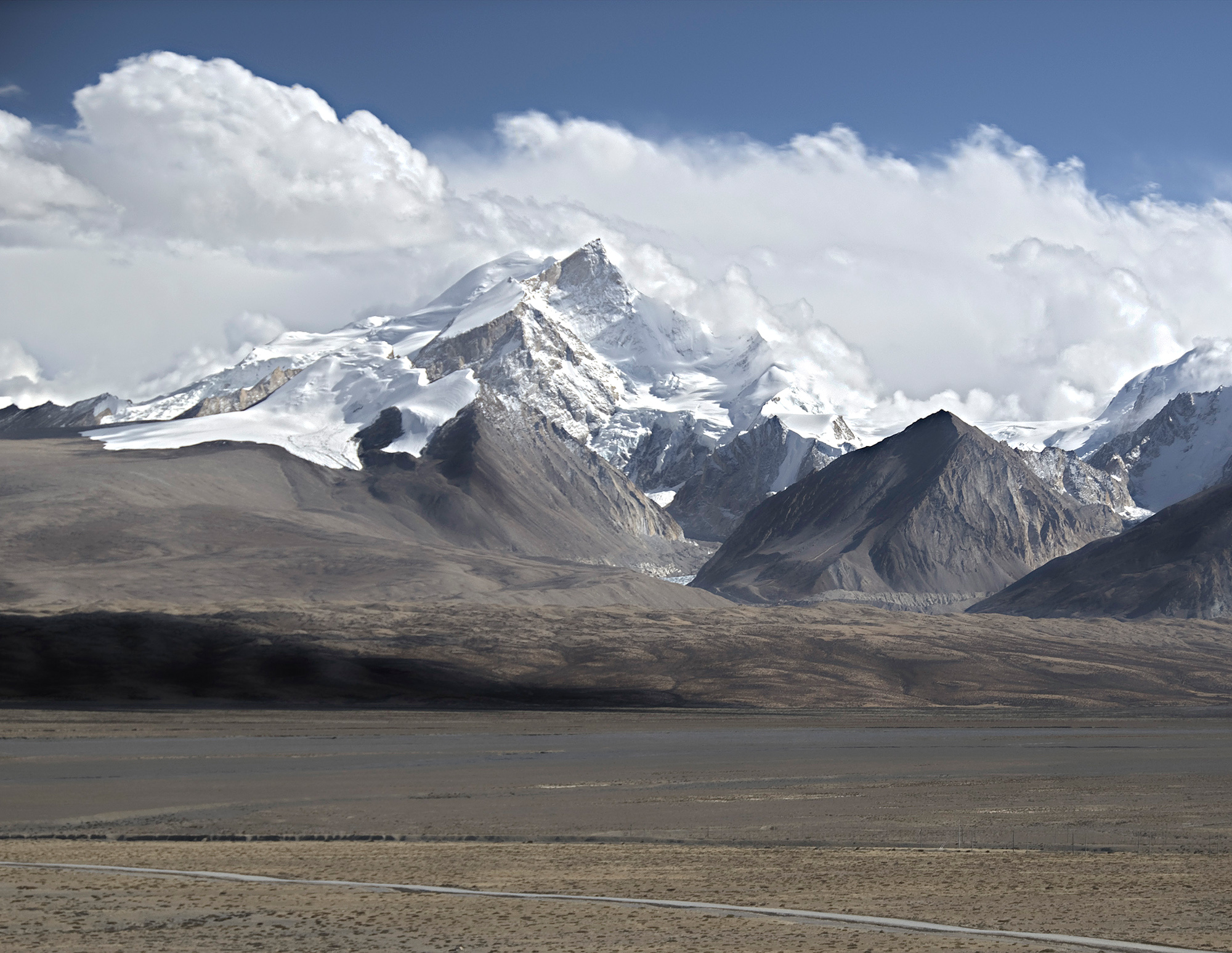 Mount Gang Benchhen (7299 m) in the Langtang Himalaya, seen from north